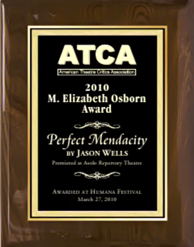 Sample Osborn Award